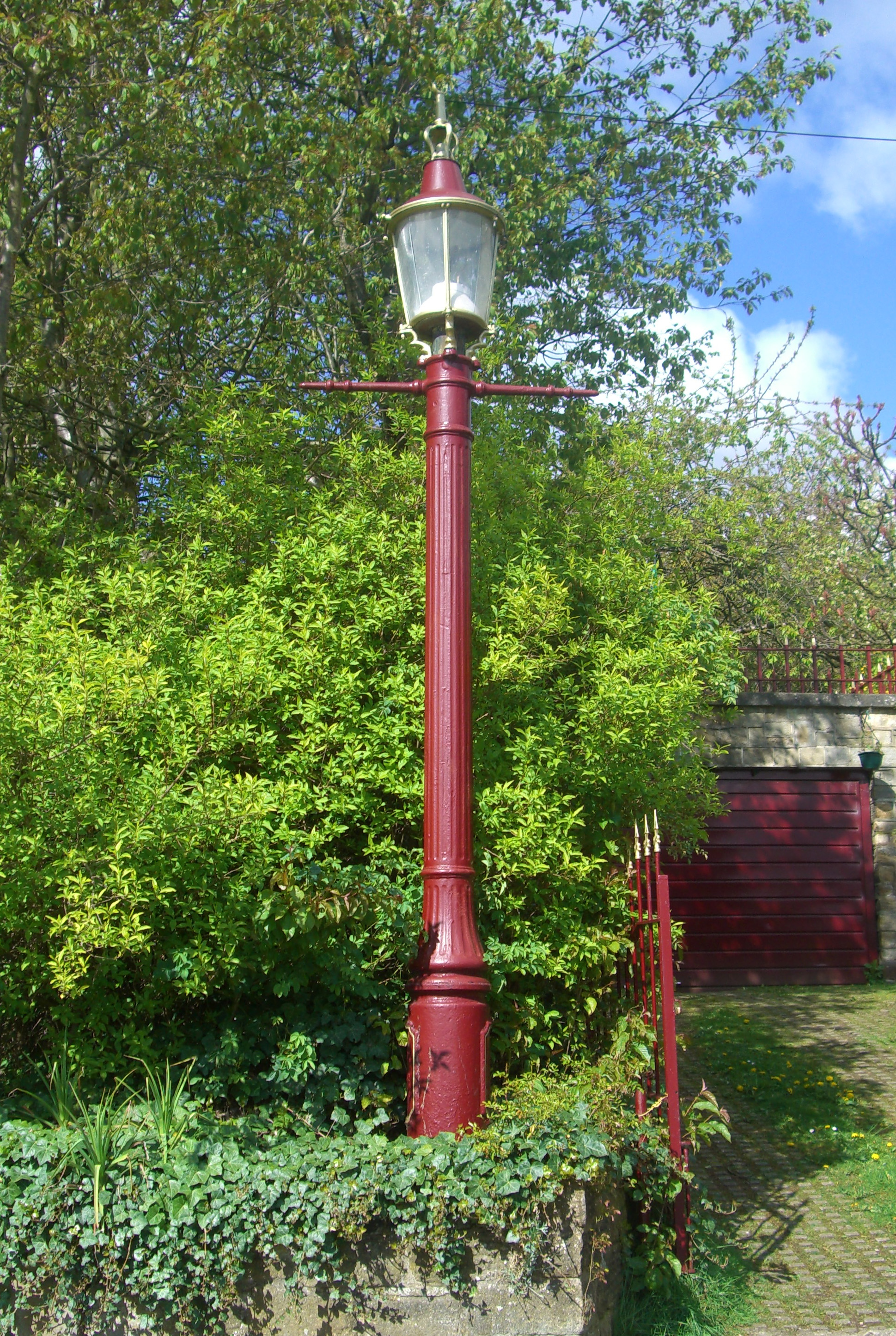 Sewer gas lamp on Rural Lane, Wadsley, Sheffield, England. This is a Grade II Listed structure.